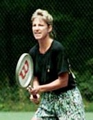 Chris_Evert_playing_tennis_at_Camp_David